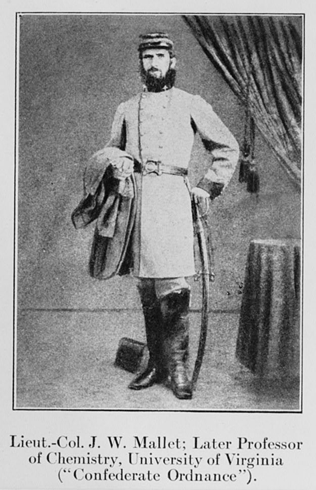 Lieut. Col. John William Mallet, full-length portrait, standing, facing slightly left; later professor of chemistry, University of Virginia. Illus. in: The Photographic History of the Civil War / Francis Trevelyan Miller - editor-in-chief. New York: The Review of Reviews Co., 1912, p. 27.